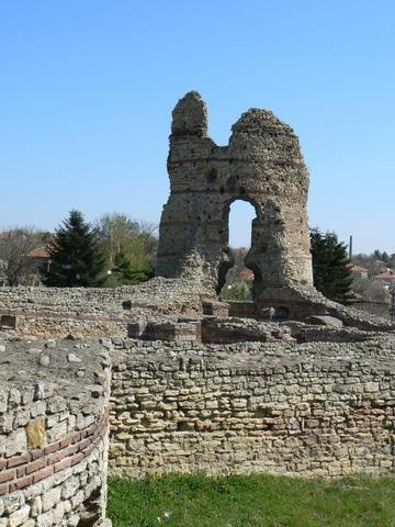 Kula kastra martis